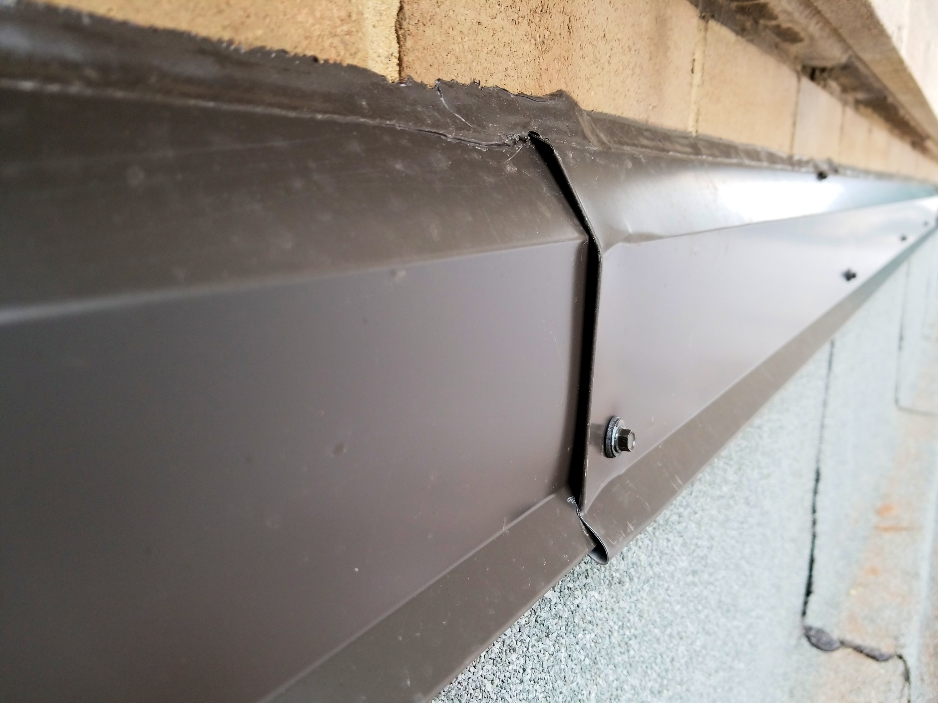 Reglet